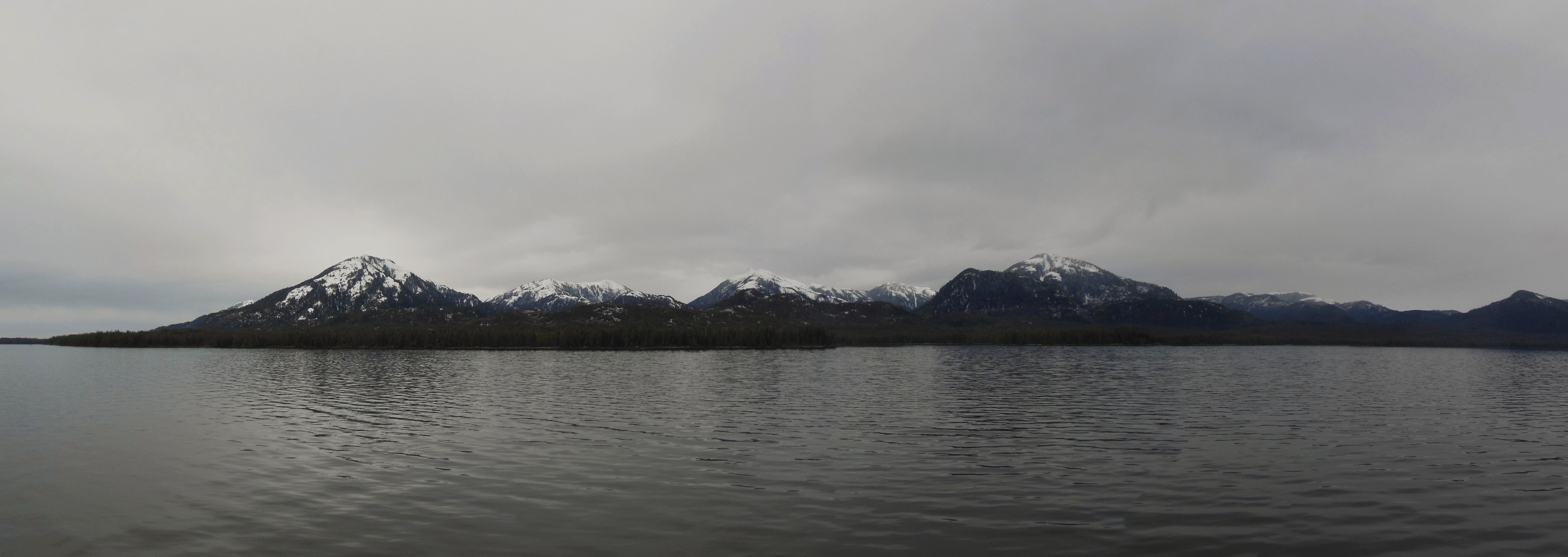 Panorama of Annette Island—an island in the Inside Passage just south of Ketchikan, Alaska—as seen from the m/v Matanuska ferry, made from five photos